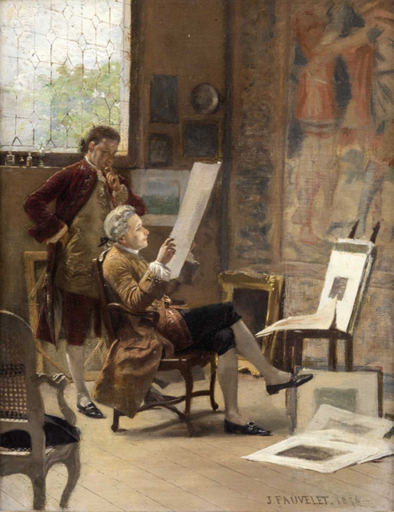 Visit to the art dealer